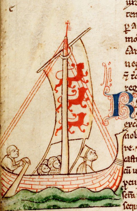 Henry III . Henry III travelling to Brittany in 1230. Original in Corpus Christi College, 16, fol. 750. See "The Art of Matthew Paris in the Chronica Majora", by Suzanne Lewis, p.209, for more information.